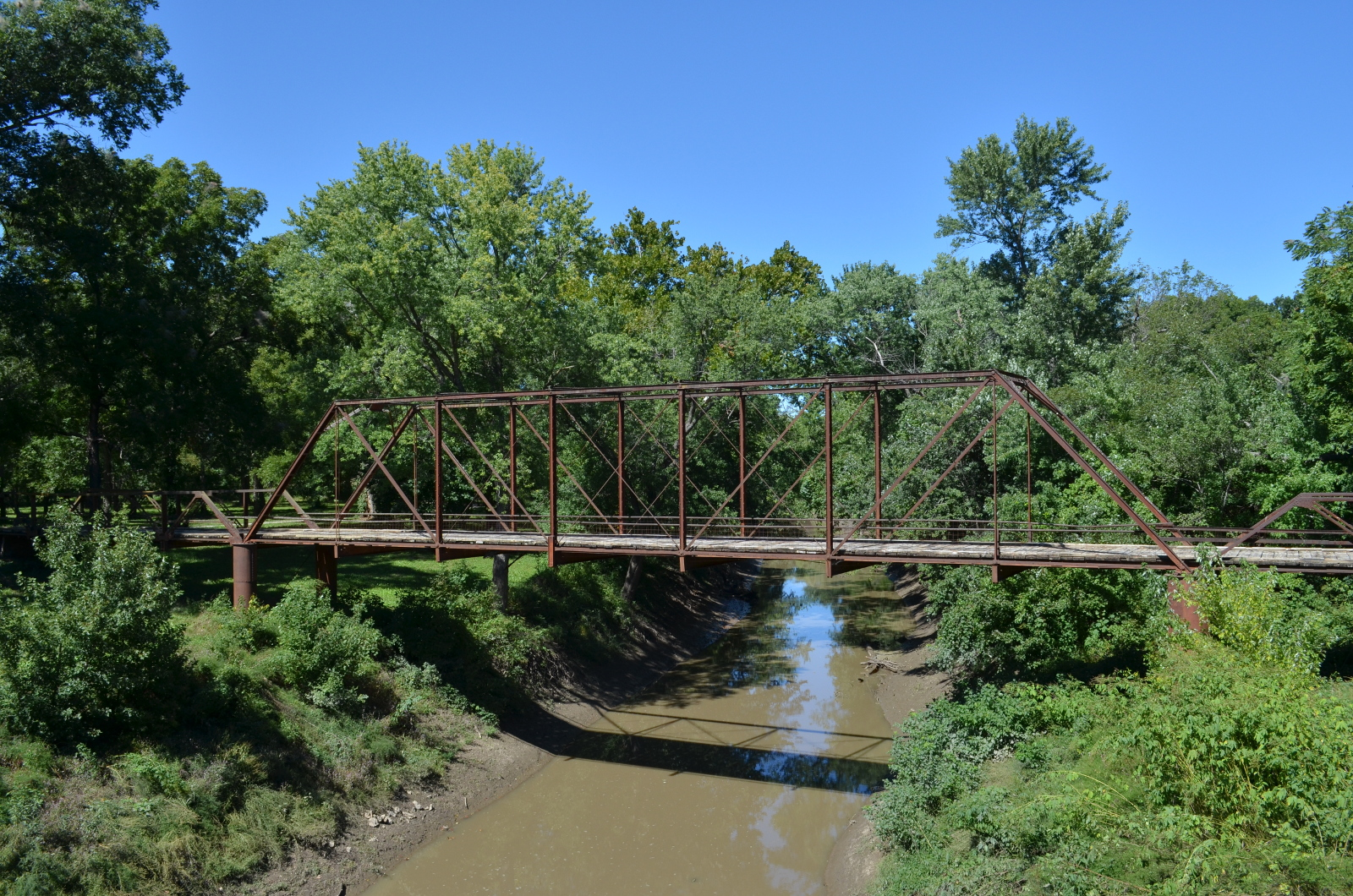 South Elevation of the Papinville Marais des Cygnes River Bridge, Cty. Rd. 648 over the Marais des Cygenes R. Papinville. This bridge is no longer in service but is easily seen from its replacement.